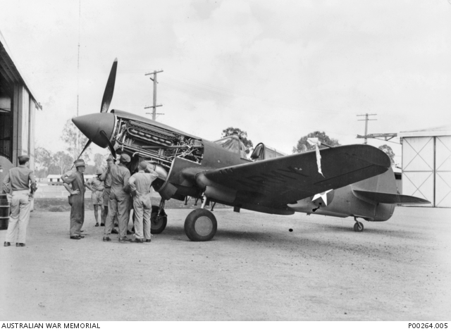 AWM caption : ARCHERFIELD, QLD. C.1941. ASSEMBLING A UNITED STATES ARMY AIR CORPS P40E AIRCRAFT OF THE 49TH FIGHTER GROUP. (ORIGINAL HOUSED IN AWM ARCHIVE STORE)